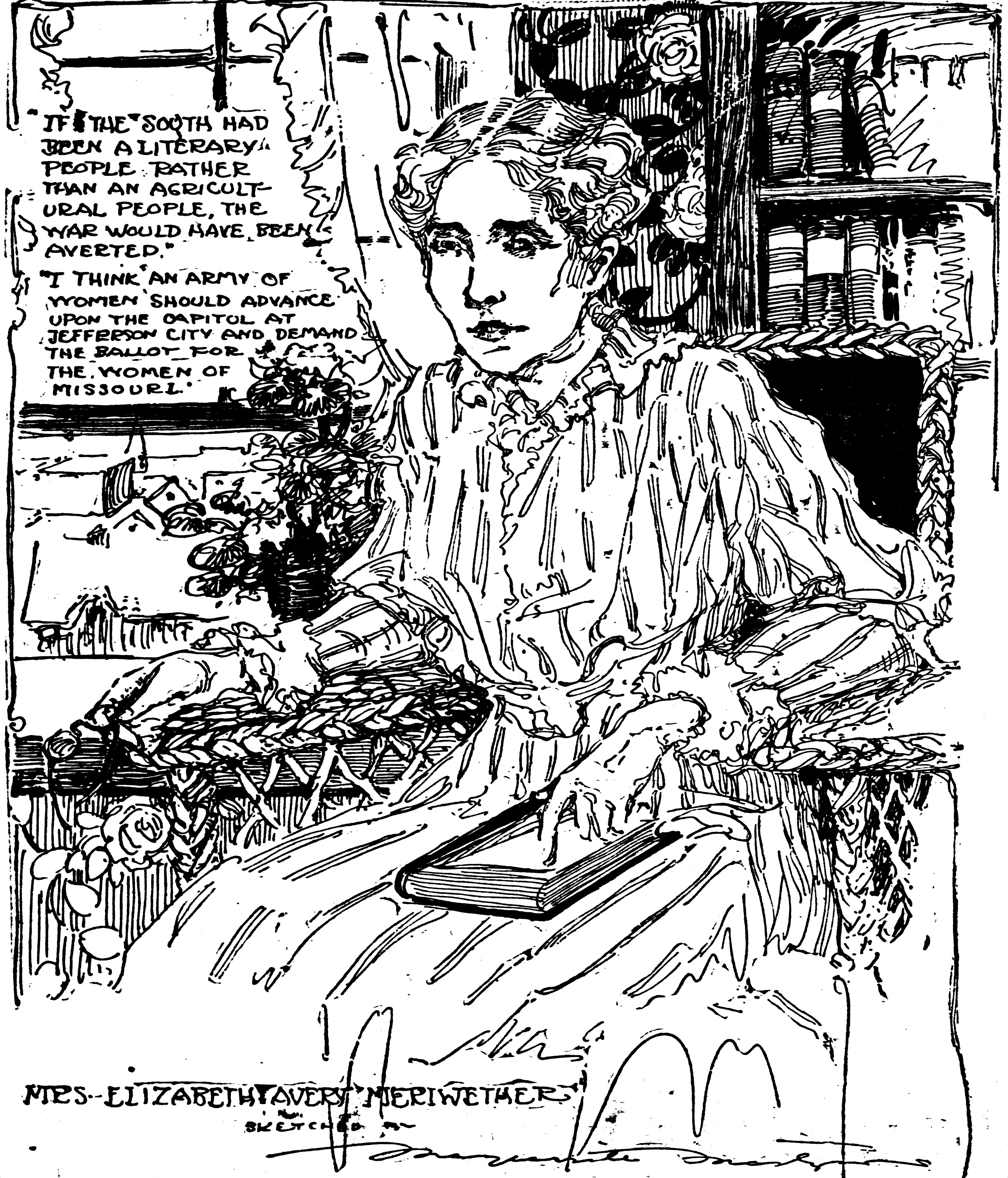 Author [Elizabeth Avery Meriwether], sketched by Marguerite Martyn, 1910